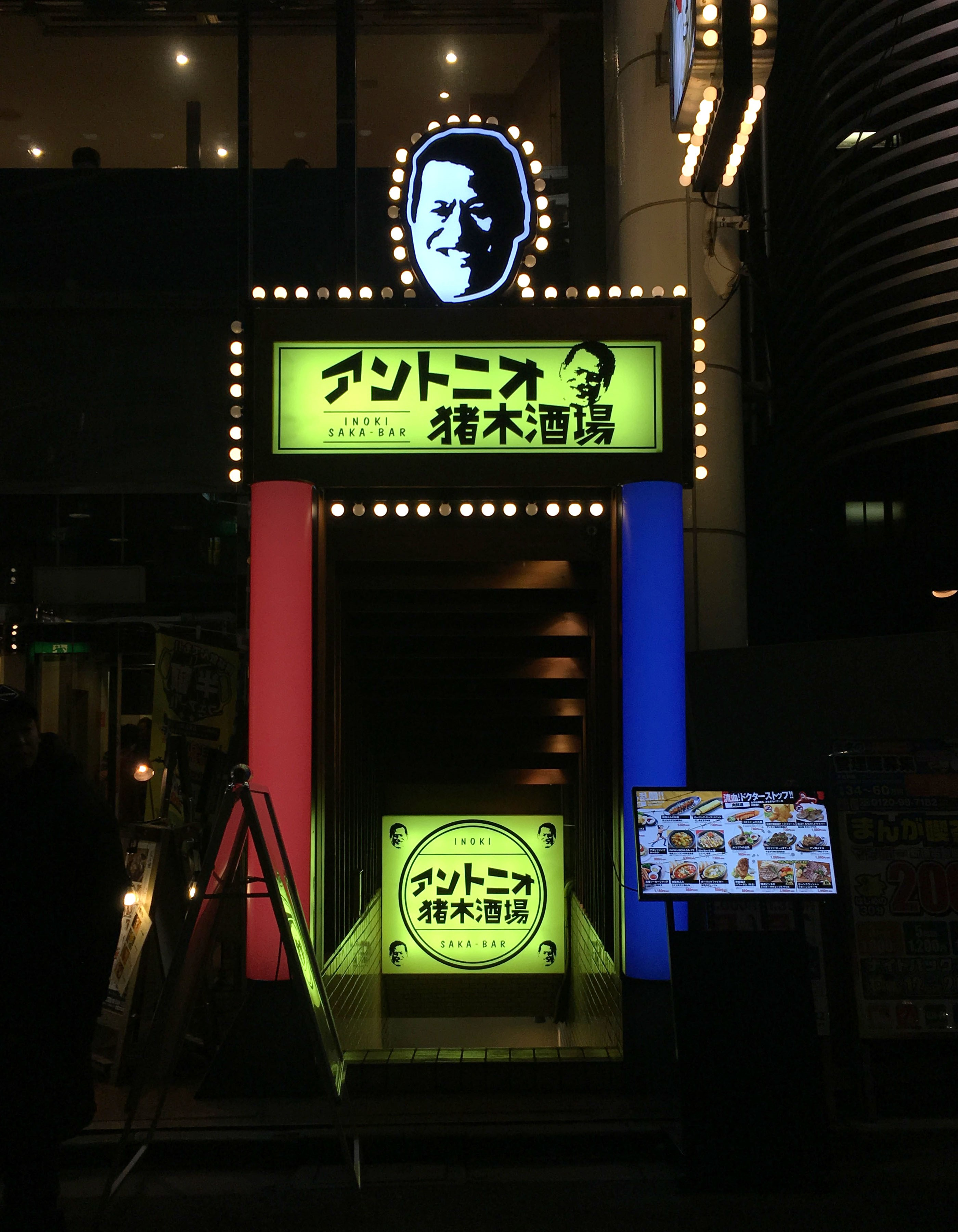 Antonio Inoki Saka-bar (Bar in Tokyo, Japan)